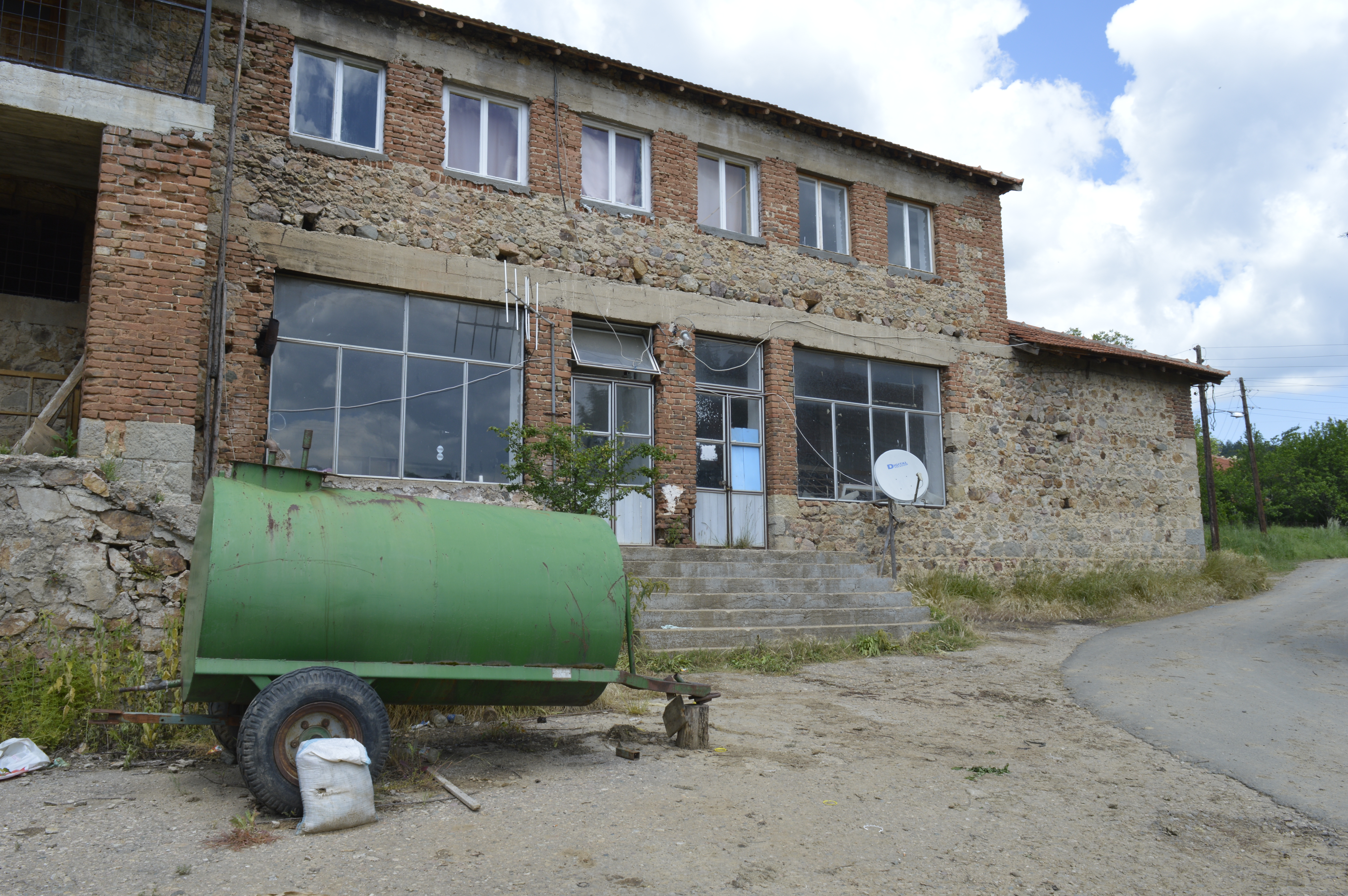 View of the old municipal building in the village Star Istevnik